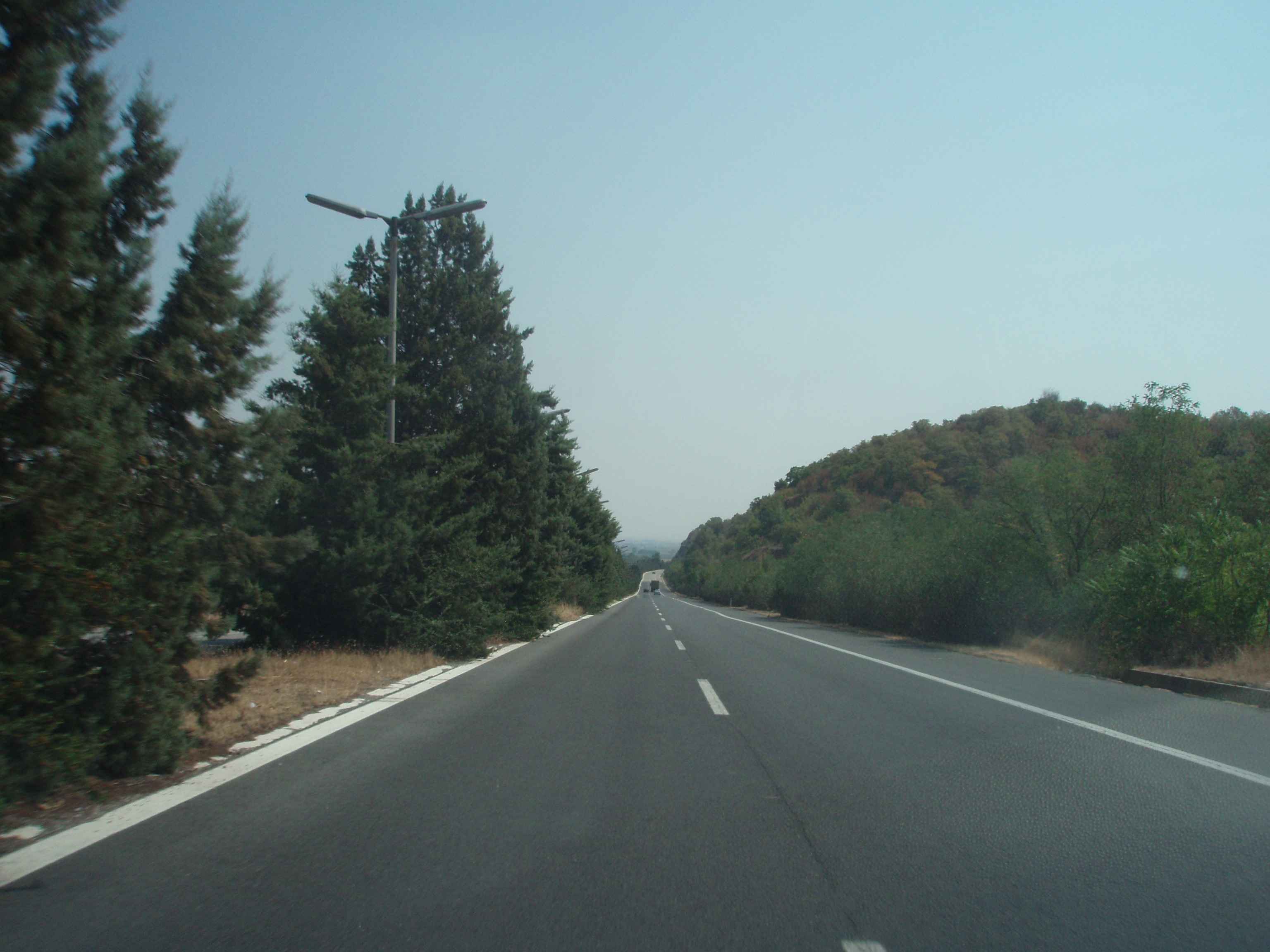 National Road 1 (Motorway A1), section Polykastro-Evzoni, Kilkis prefecture, Region of Central Macedonia, Greece.